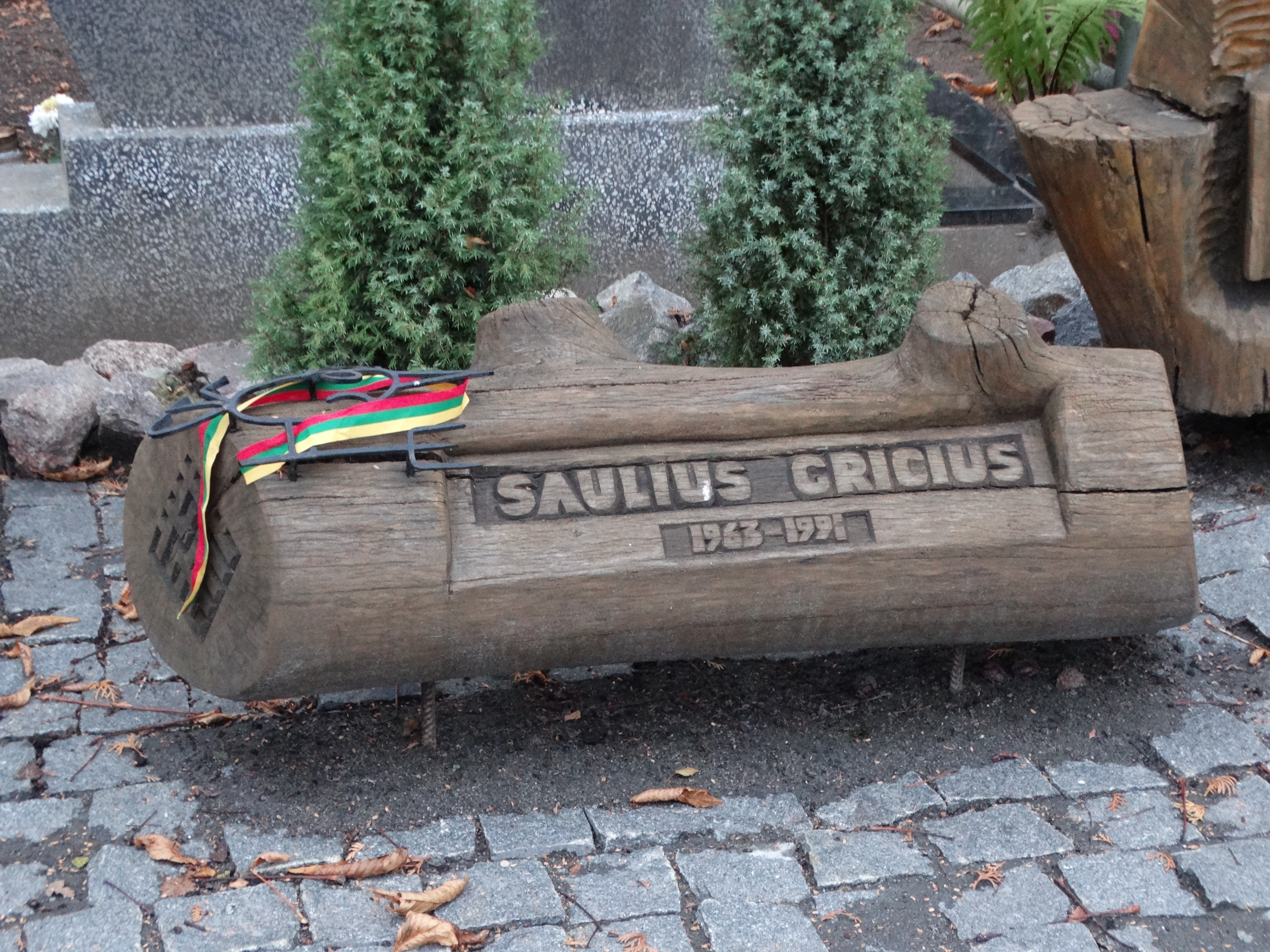 Tomb of Saulius Gricius, Eiguliai cemetery, Lithuania